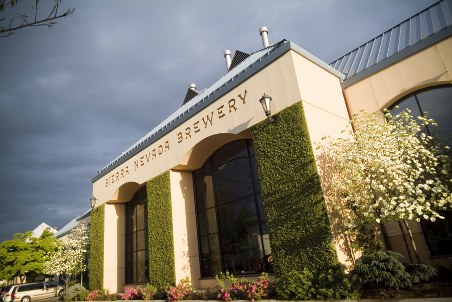 Exterior photo of Sierra Nevada Brewing Co. facility in Chico, CA.